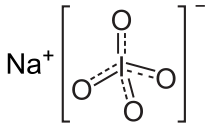 Sodium periodate